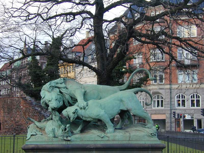 Sculpture at Jarmers Plads in central Copenhagen, Denmark